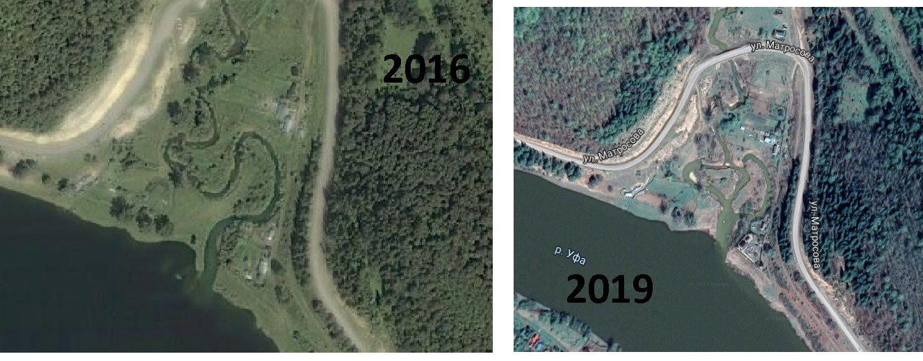 Water erosion of the mouth of the Yamanelga.